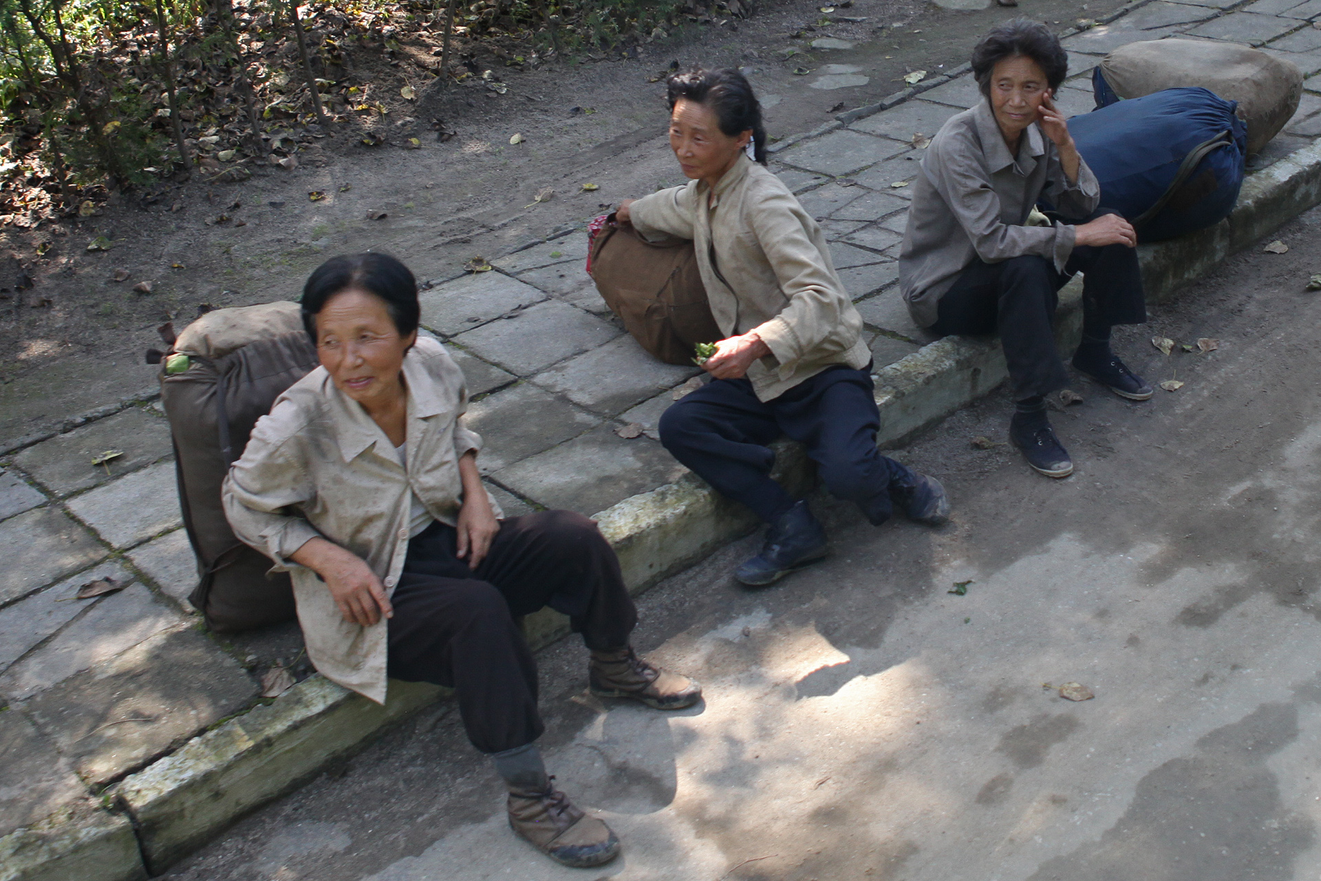 Women usually work hard in North Korean society.